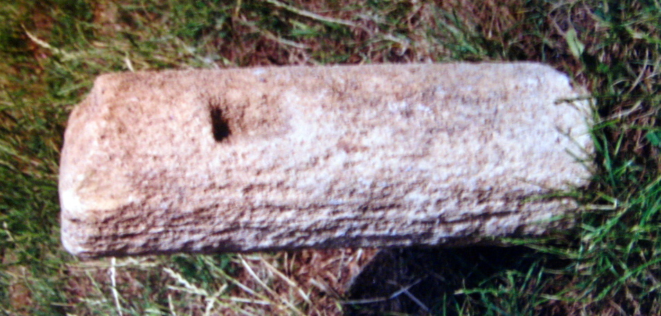 Columns fragment from the river at Pölland found in village Obermillstatt near Lake Millstatt (Millstätter See), district Spittal an der Drau in Carinthia / Austria / EU. This column was found by children and by the farmer and gravedigger Alois Auer vlg. Messner recovered.